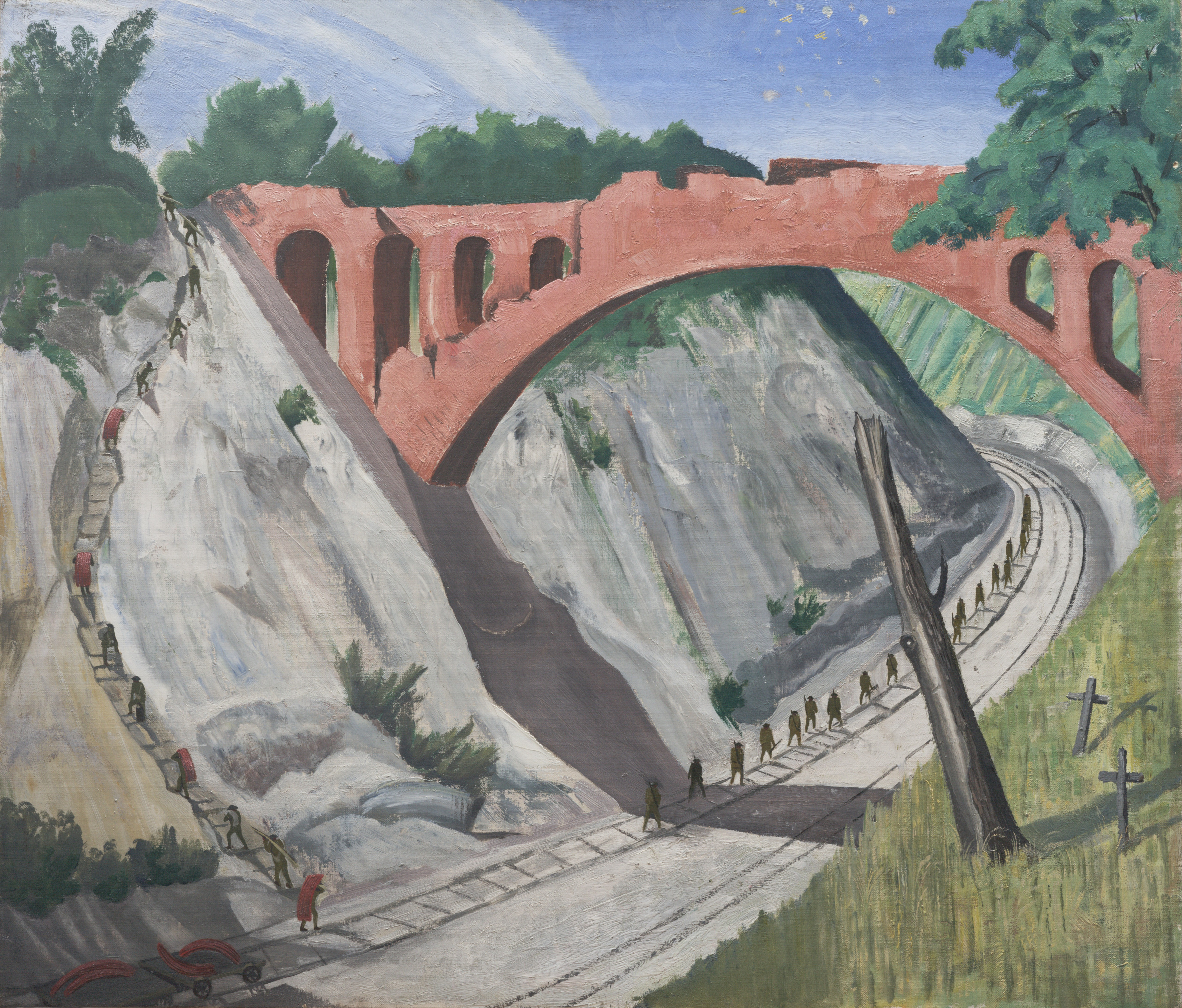 The Bridge over the Arras-lens Railway image: A view of the reddish coloured arched bridge over the Arras-Lens railway. A line of men walk along the railway line, with another line of men walking along a track up the steep cliff face on the left. In the right foreground are two graves marked by crosses and a tree stump.